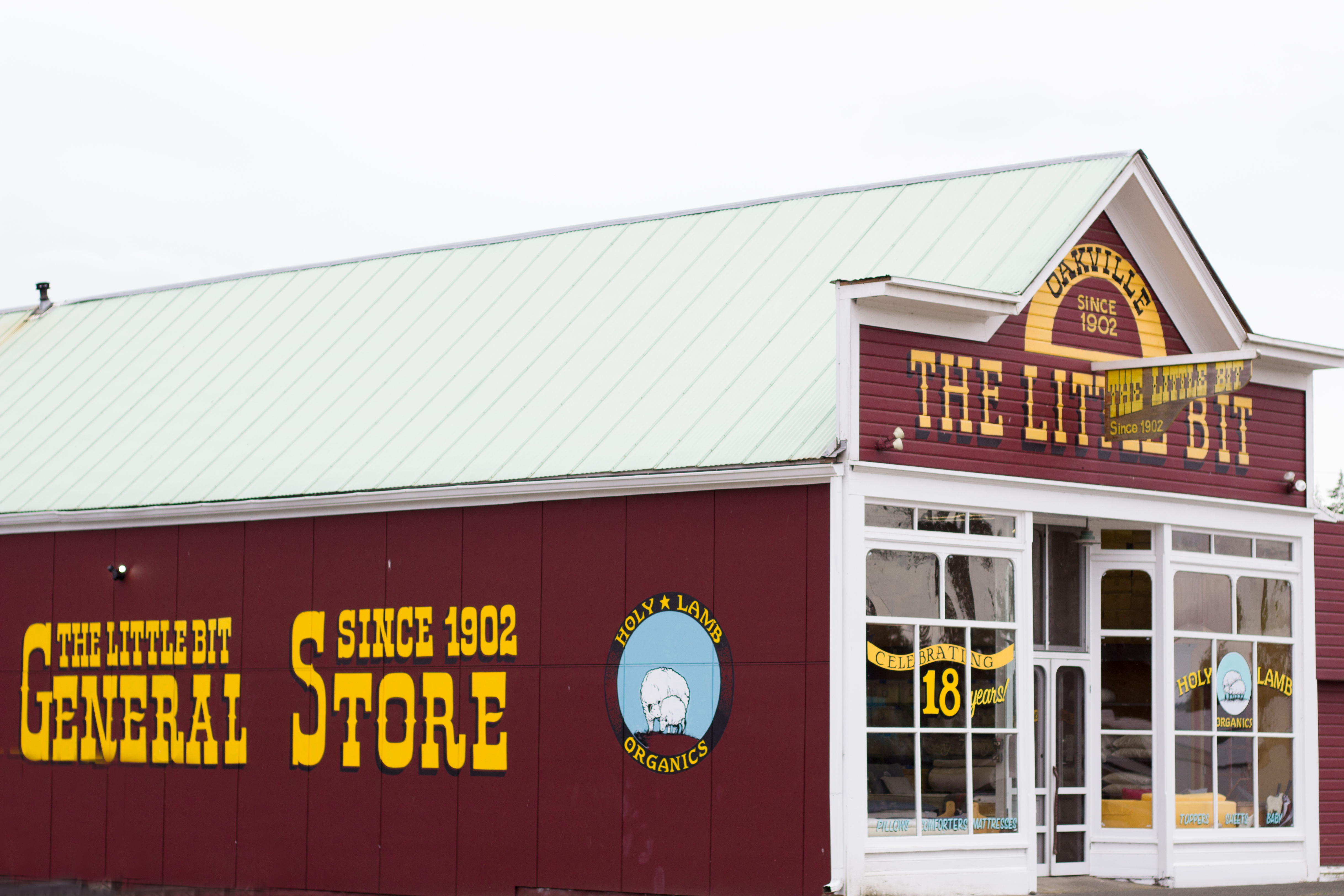 What was once the "Little Bit General Store" in 1902 operates as "The Holy Lamb" bedding store in 2018.